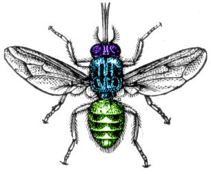 A drawing of a fly from Glossina genus. The three tagmata are coloured.